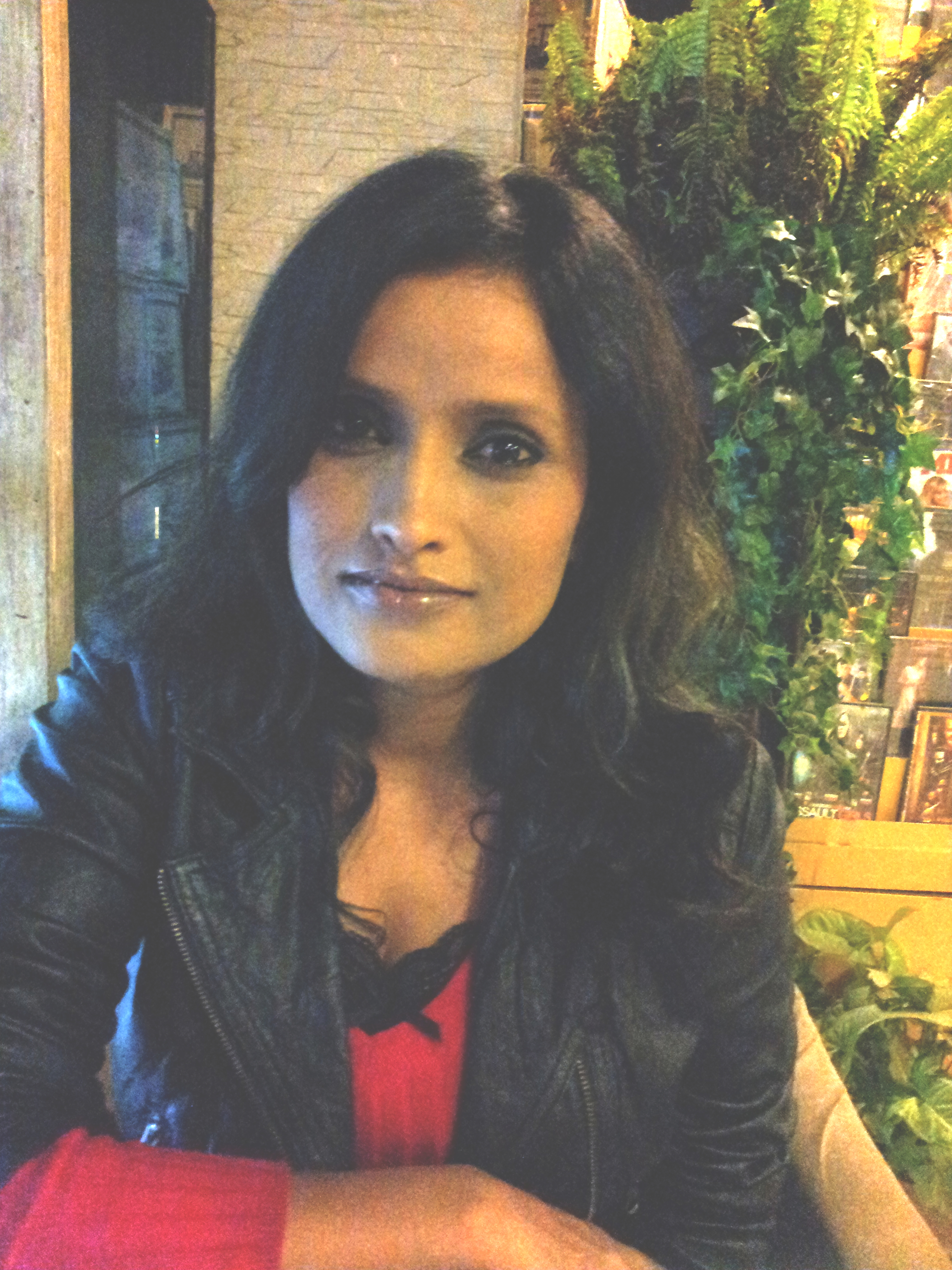 First Lady/ first daughter of Nepal